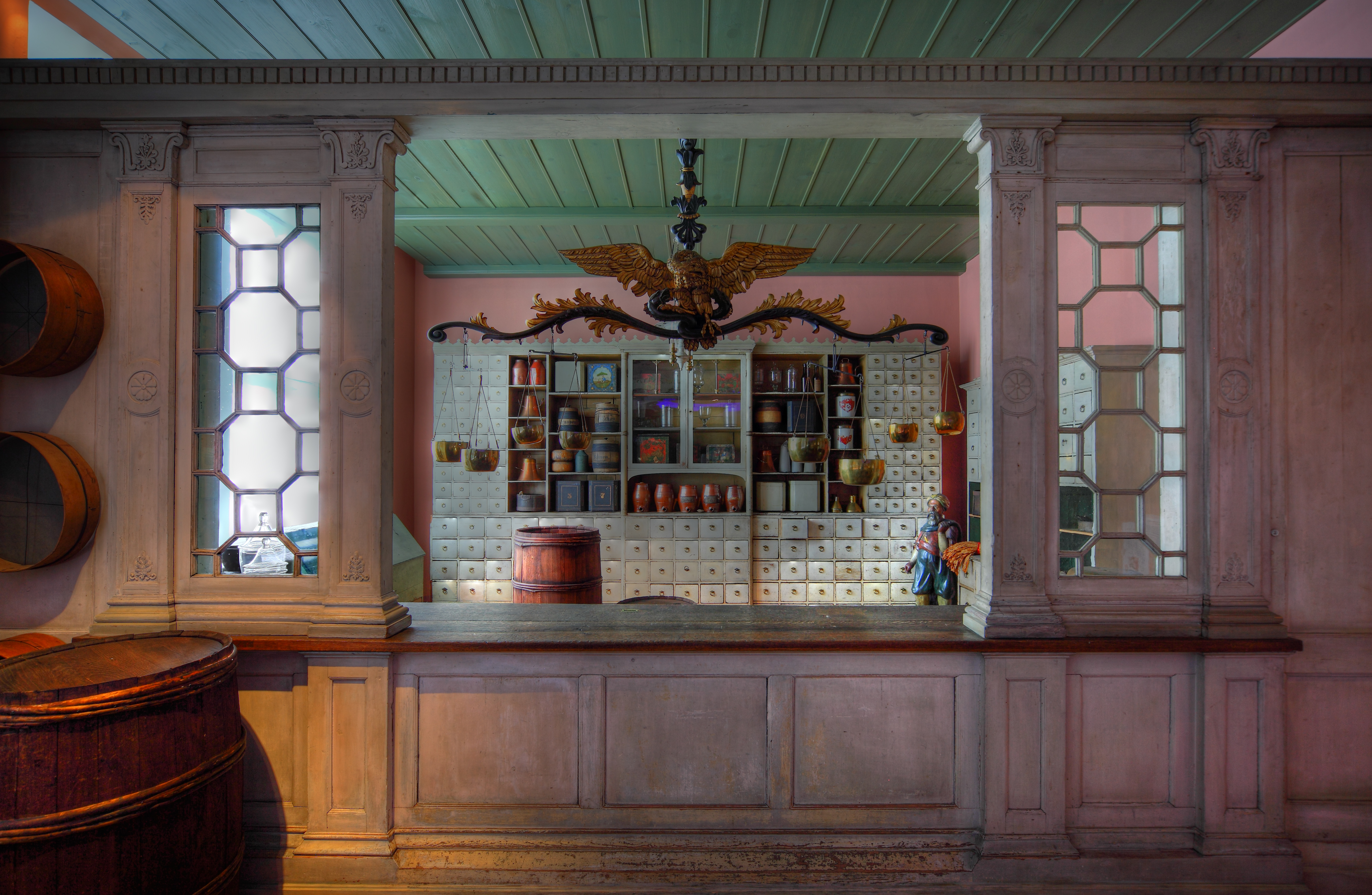 Hamburg "Colonial Goods" Shop, ca. 1830. Object in hamburgmuseum (Museum for Hamburg History).